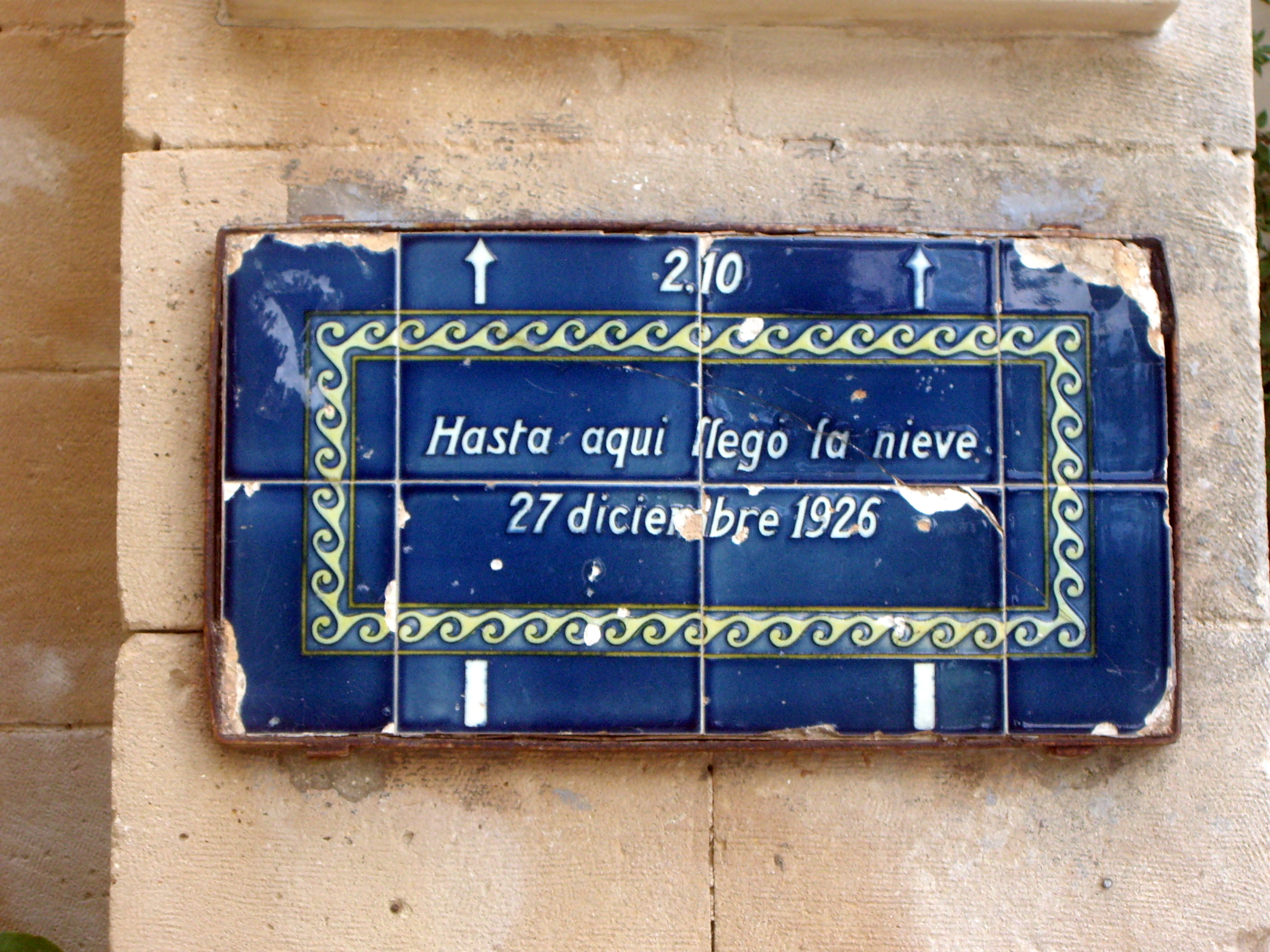 2,10 Until the snow arrived here on December 27, 1926